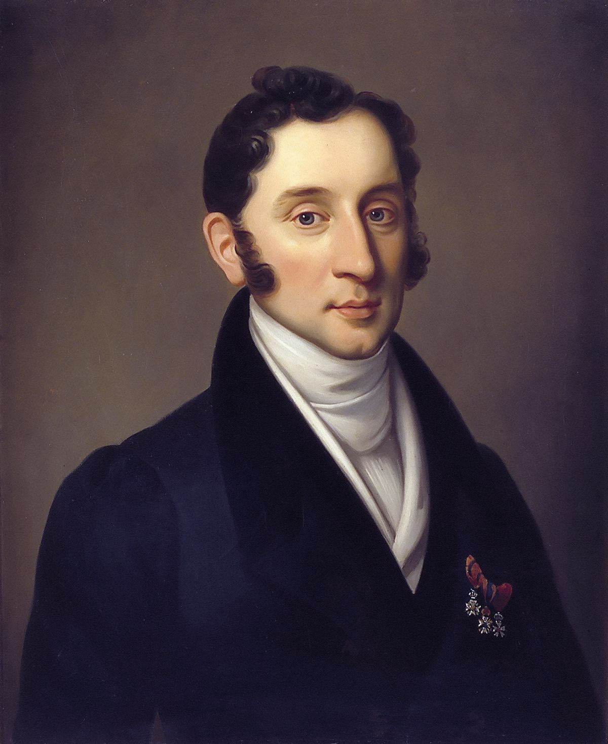 Copy after a painting by Narcisse Garnier dated 1828 (see RKDimages).